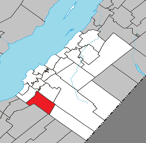 Location of Saint-Onésime-d'Ixworth, Quebec within Kamouraska Regional County Municipality.